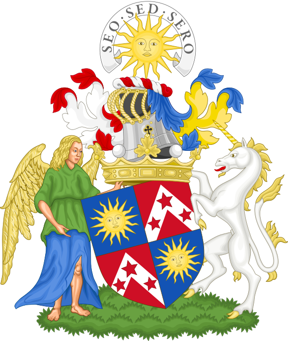 coat of arms of the marquess of Lothian Arms. Quarterly: 1st and 4th, A Sun in Splendour proper (Lothian, as a coat of augmentation); 2nd and 3rd, Gules on a Chevron Argent three Mullets of the field (Lordship of Jedburgh). Crest. A Sun as in the arms. Supporters. Dexter: an Angel proper vested Azure surcoated Vert winged and crined Or; Sinister: an Unicorn Argent armed maned and unguled Or gorged with a Collar Gules charged with three Mullets Argent. Motto. Seo Sed Serio (Late but in earnest). Cracroft's Peerage